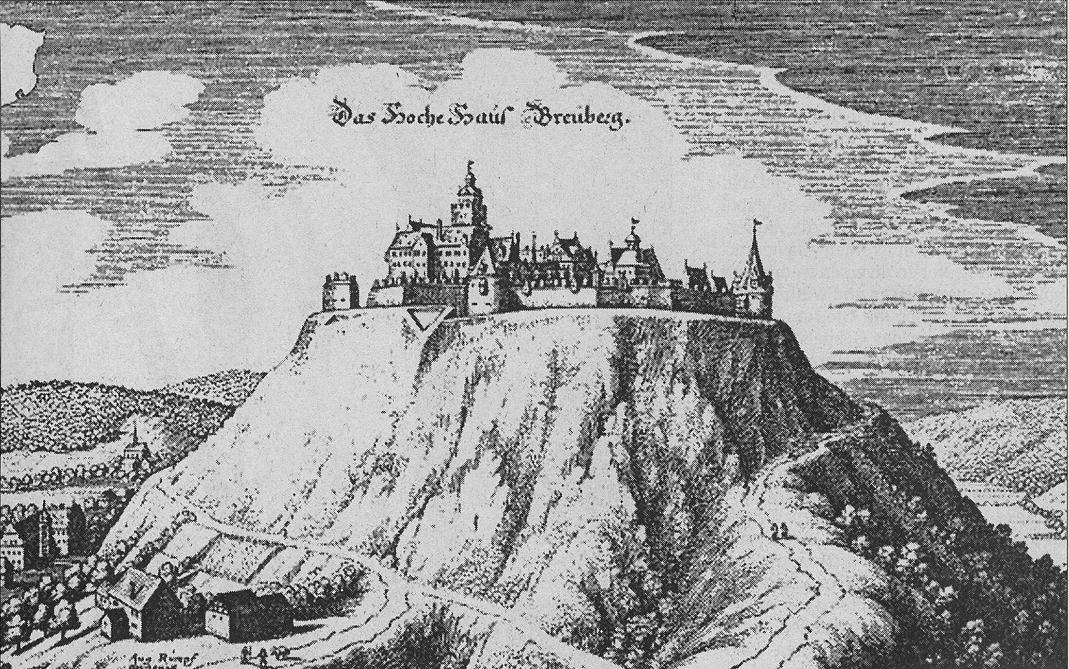 Breuberg Castle, old engraving